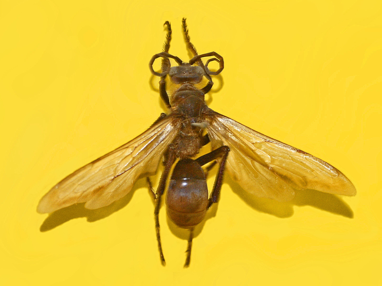 Pepsis albocincta. Museum specimen